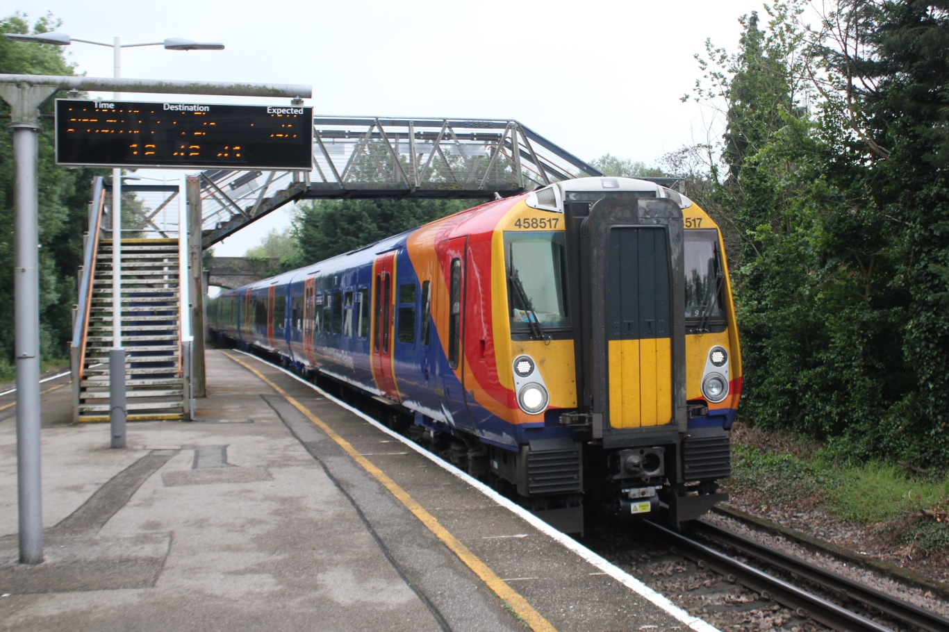 Electric units 458517 and 458522 arrive at Sunnymeads with a South Western Railway service from London Waterloo to Windsor & Eton Riverside.